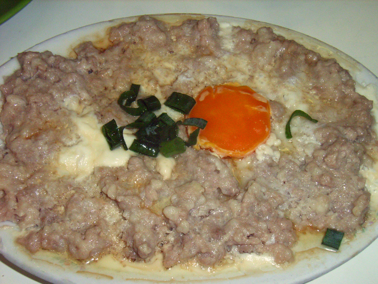 黃昏zh:晚飯於上環街市zh:上環熟食中心棟記飯店 咸蛋蒸zh:肉餅